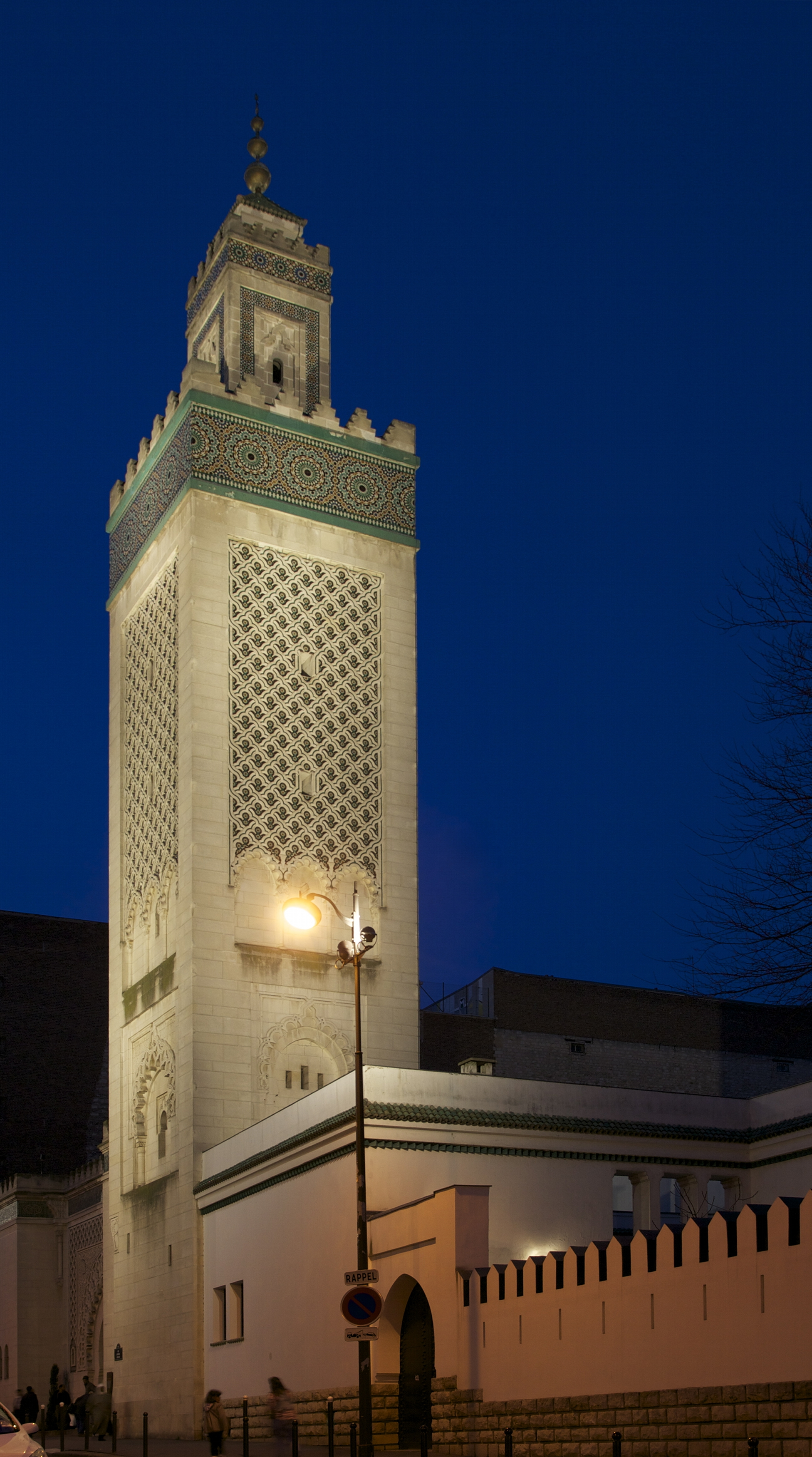 Mosque of Paris, Minaret, Blue hour.